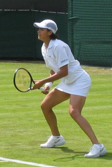 Eleni Daniilidou at the 2005 Wimbledon Championships. Picture taken by User:Sarfati.